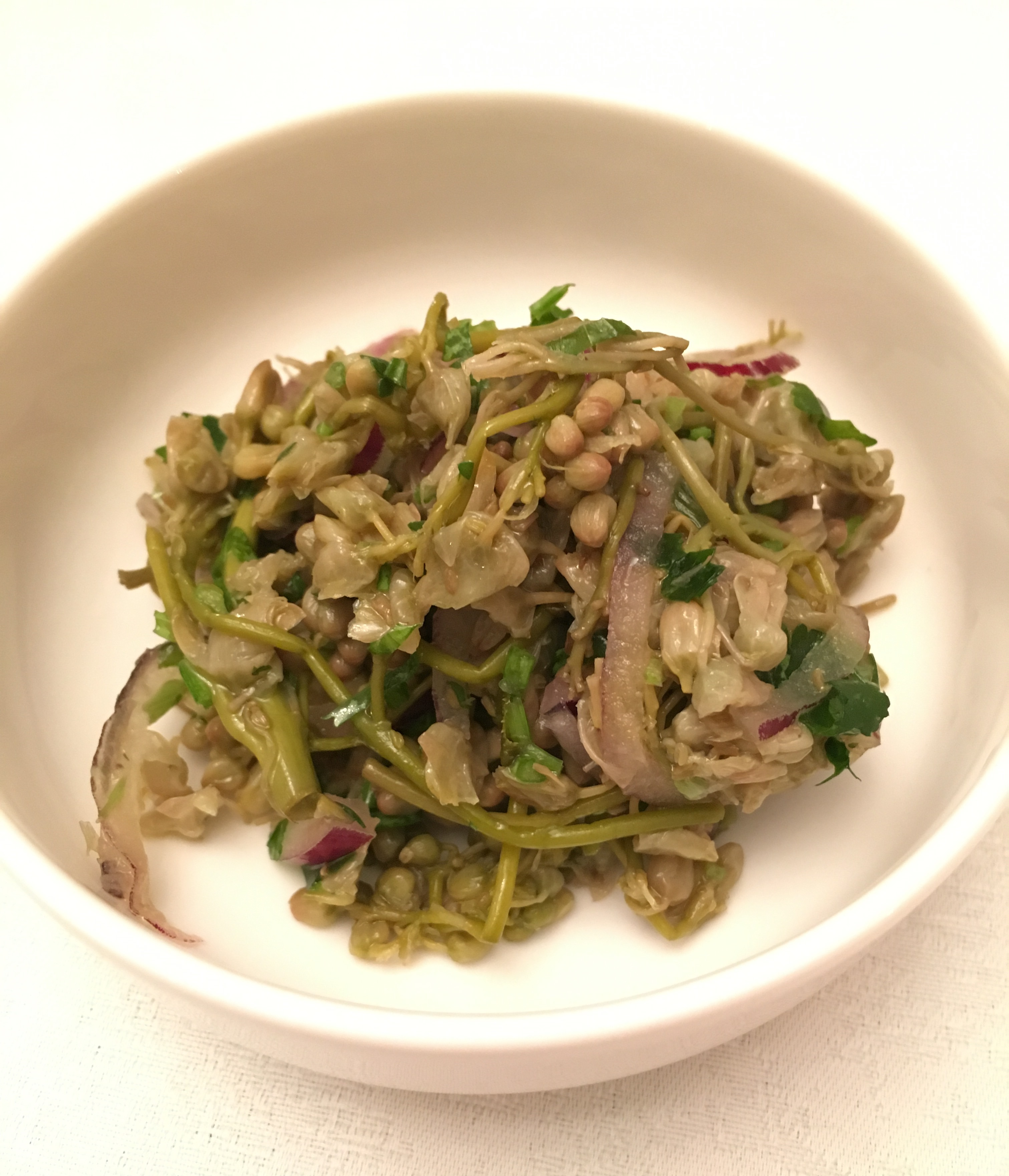 Marinated Colchis bladdernut served in one of Moscow restaurants